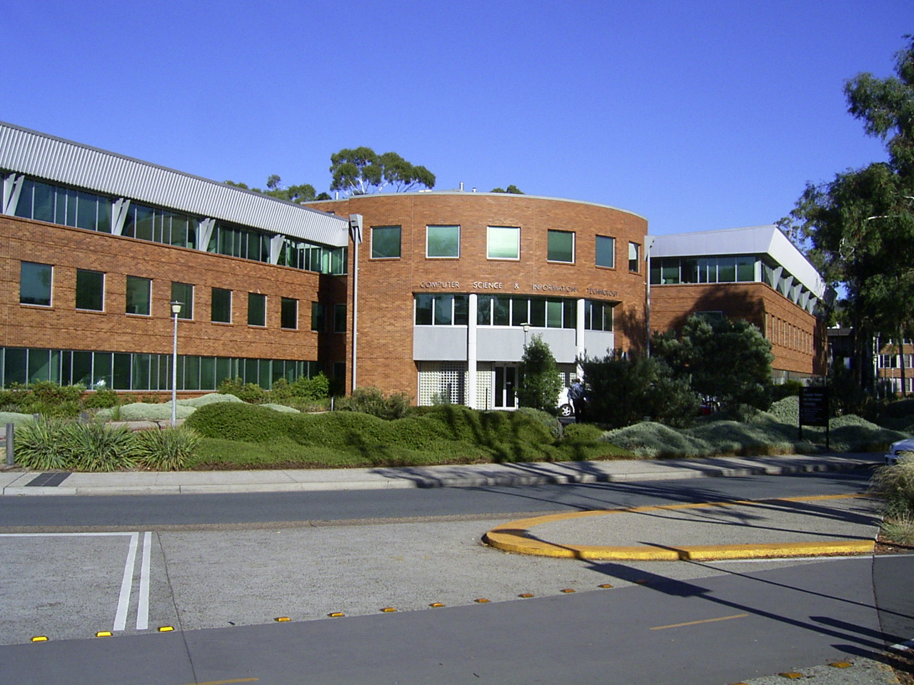 This is why I loved working at the Australian National University : This was part of my path, from the bus stop to my office